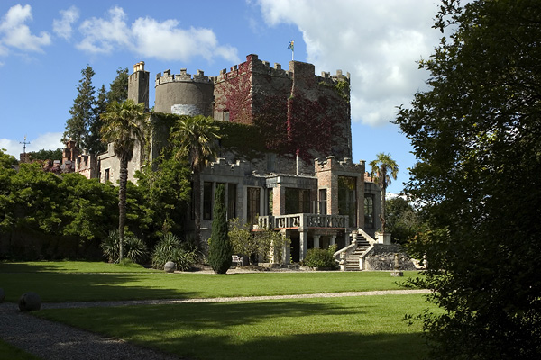 Huntington Castle, Clonegal, County Carlow, Ireland. Photo courtesy James Burke.